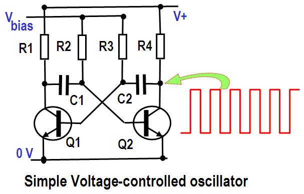 Simple Voltage-controlled oscillator